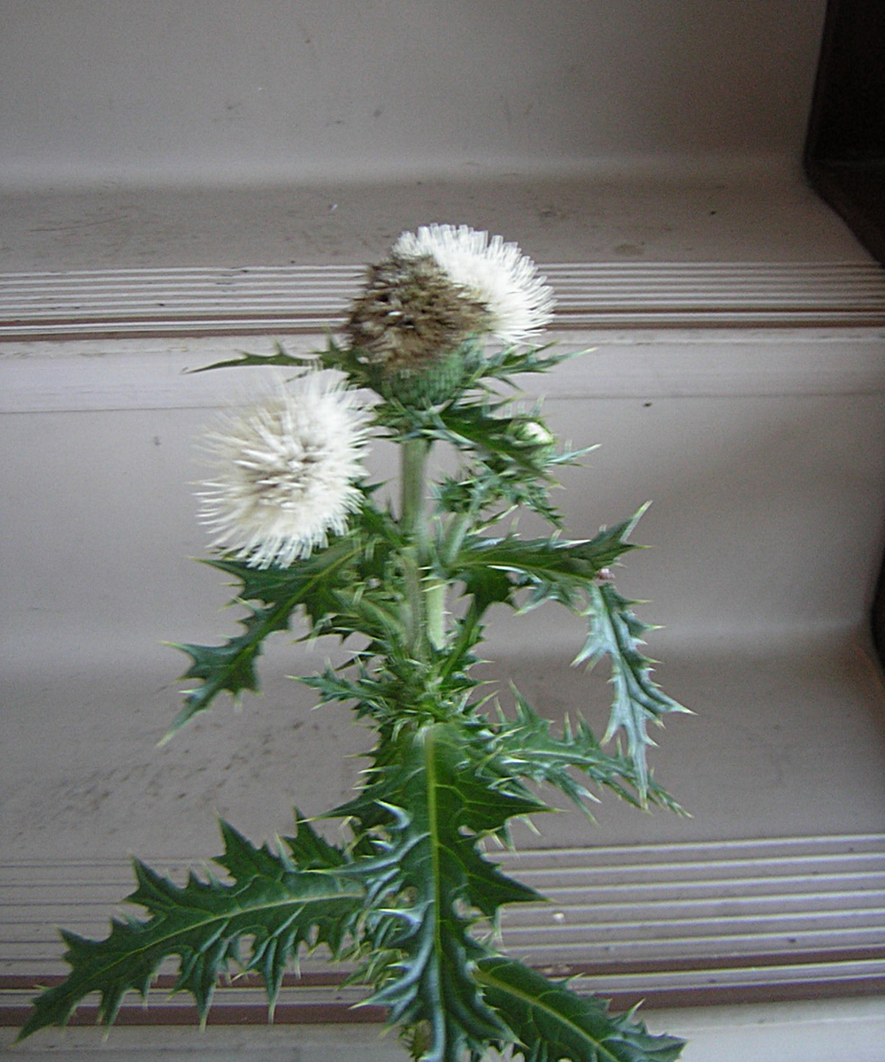 自種的白花雞角刺，雞角刺查為大薊別稱，據稱在台灣取白花種為藥用。 My own Cirsium albescens Kitam. With its characteristic white flower, this type of plant is served as herbal medicine in Taiwan.